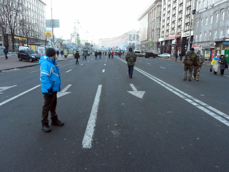 The 'corridor' in the Khreshchatyk between the Euromaidan and 'Antimaidan' demonstrations, looking towards the Maidan. 08.00, 14.12.2013